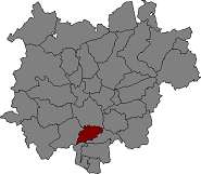 Location of Castellgalí in Bages